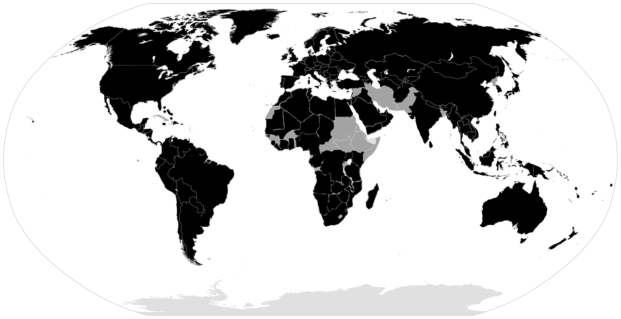 Shows the updated map of countries availability for Apple Music